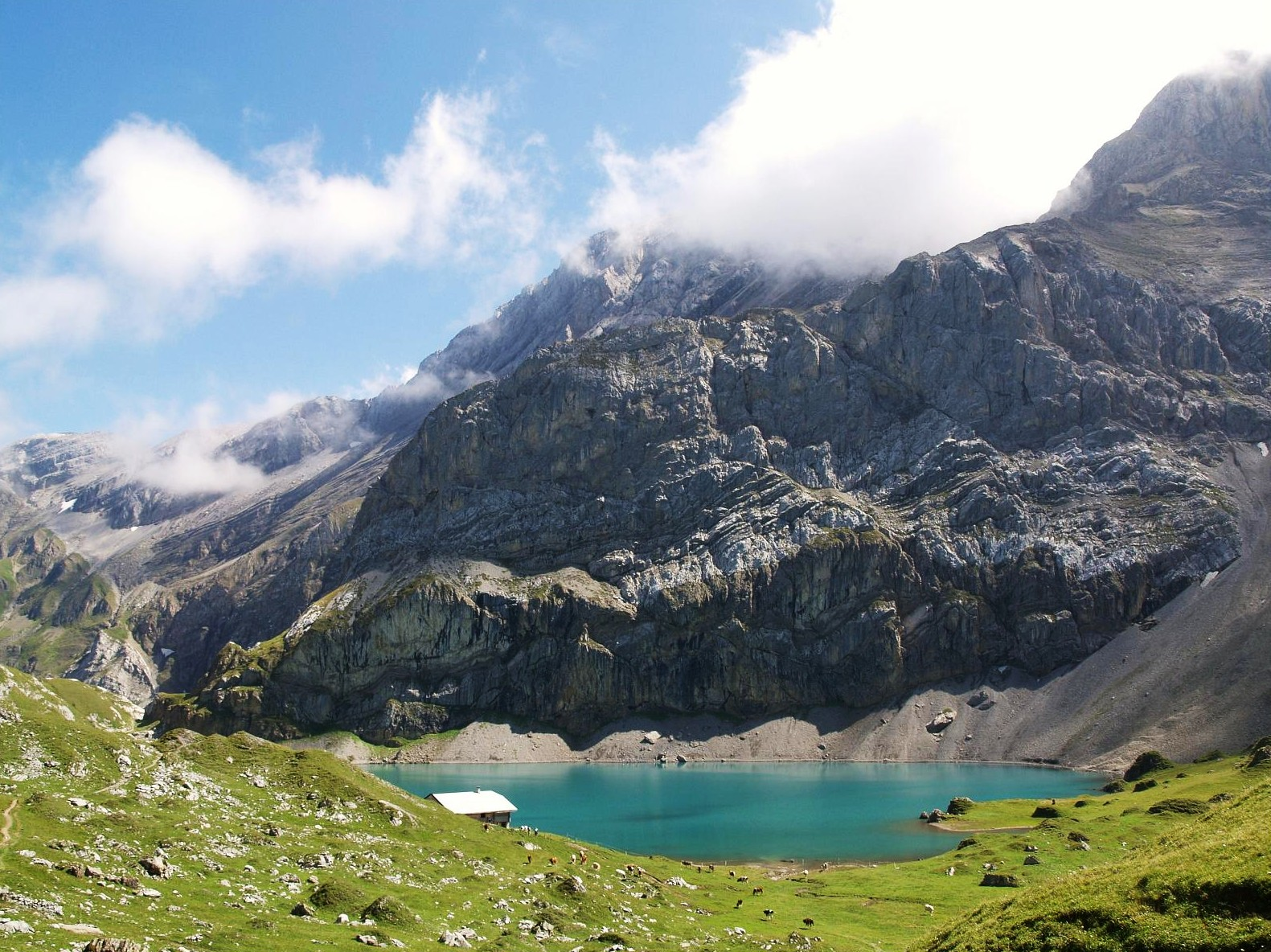 Iffigsee and Wildhorn massif near Lenk